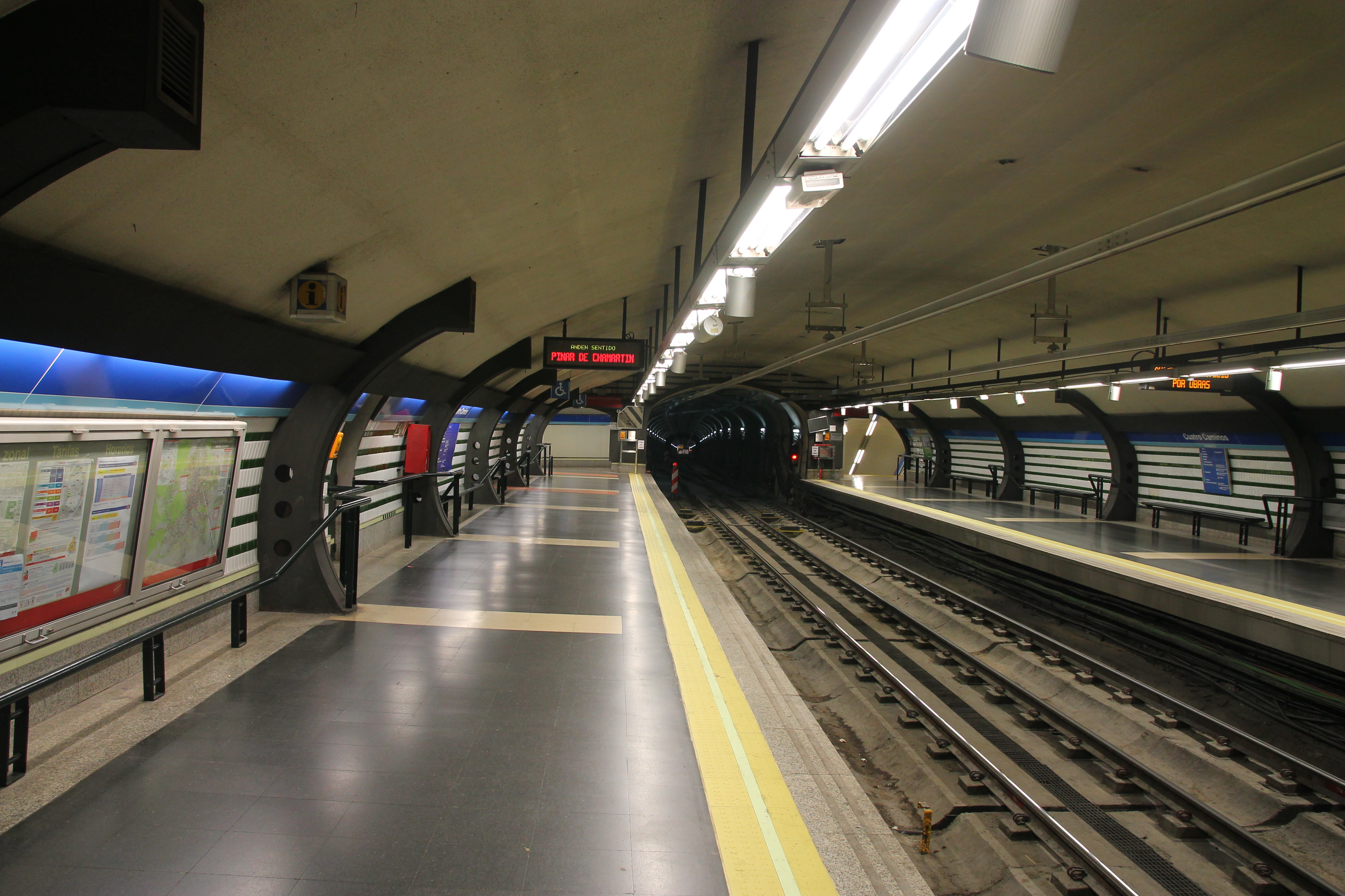 Platform of the Cuatro Caminos metro station, line 1, Madrid